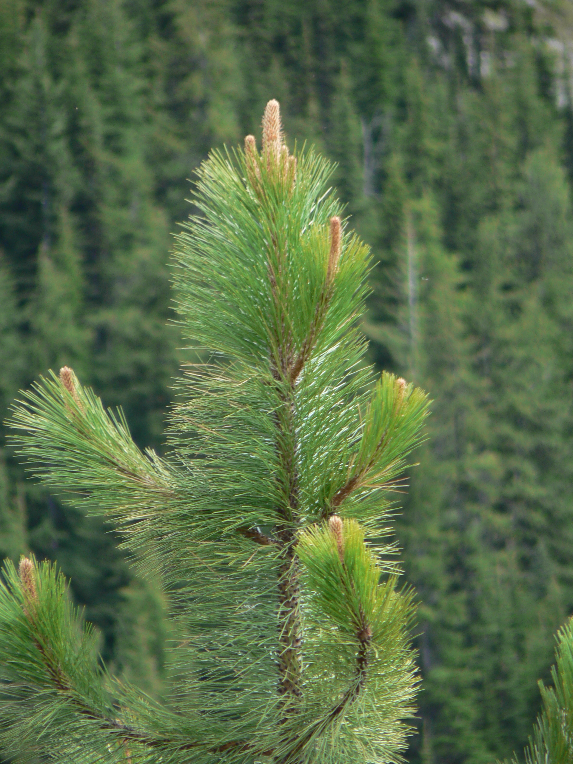 Ponderosa Pine, Western Yellow Pine, Blackjack or Bull Pine